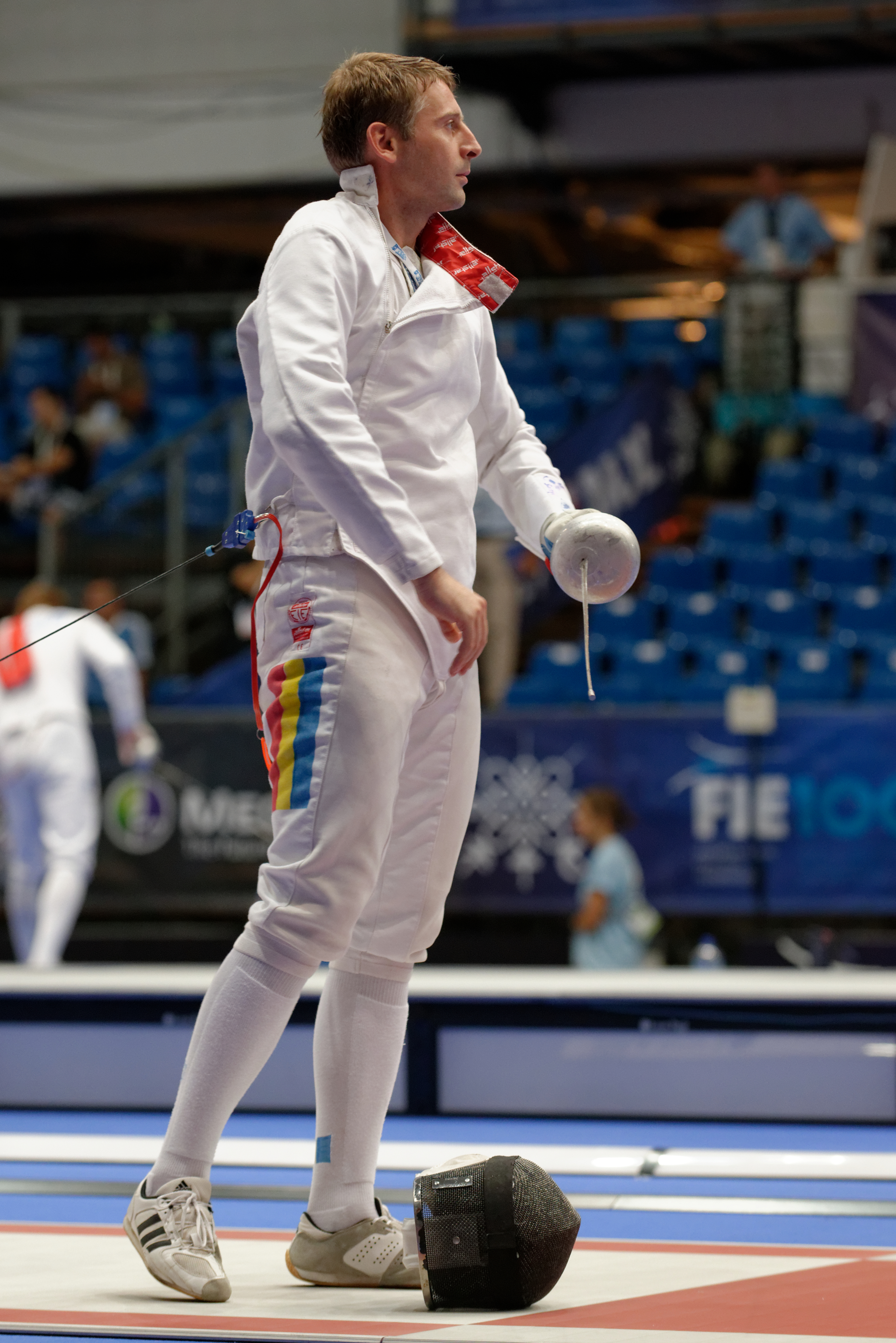 Romania's Alexandru Nyisztor during his bout against Max Heinzer from Switzerland in the table of 64 of the men's épée event in the 2013 World Fencing Championships 2013 at Syma Hall in Budapest, 8 August 2013.